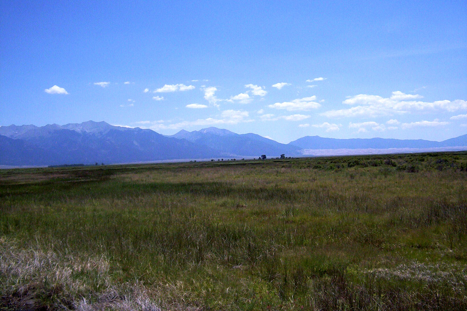 Wet hay meadow in the Baca National Wildlife Refuge — in San Luis Valley, southern Colorado. The Sangre de Cristo Range and Great Sand Dunes are in the background. This image was probably made on the lower meadows of Willow Creek. The view is to the southeast.